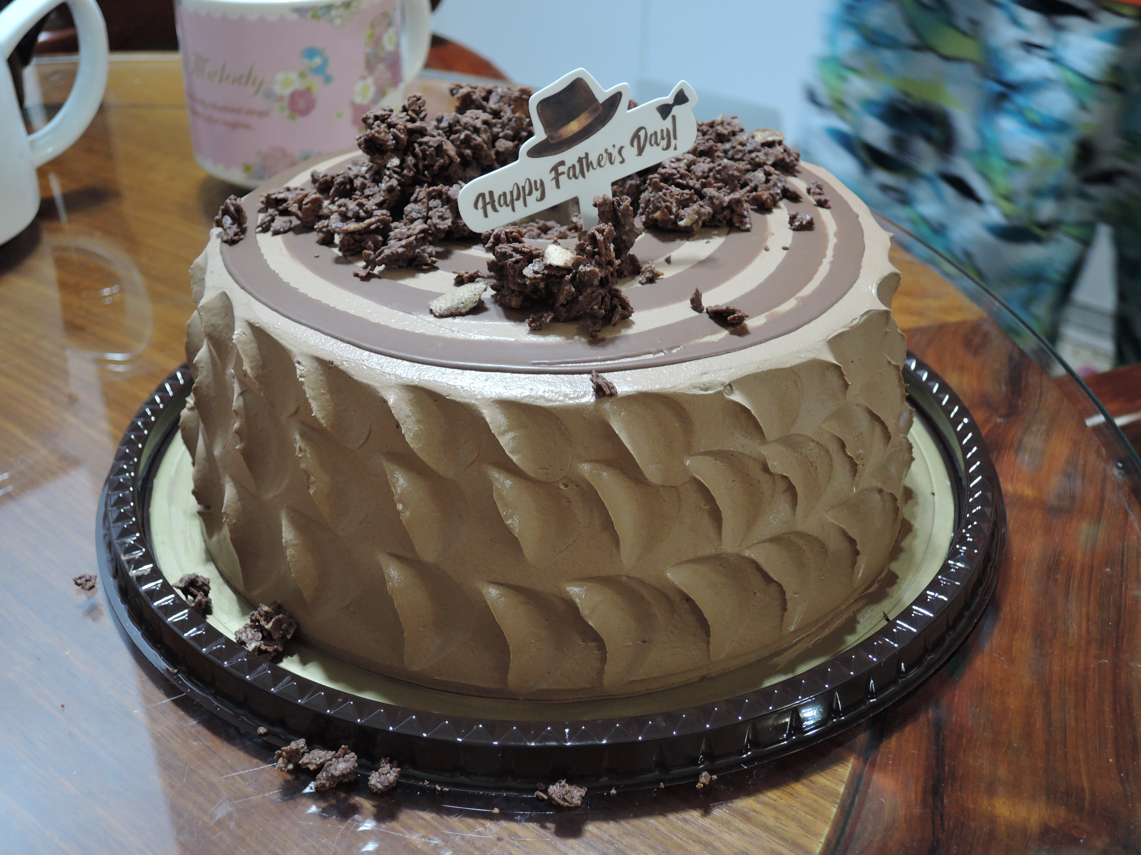 Devil food cake from Maxim's Cake for Father's day